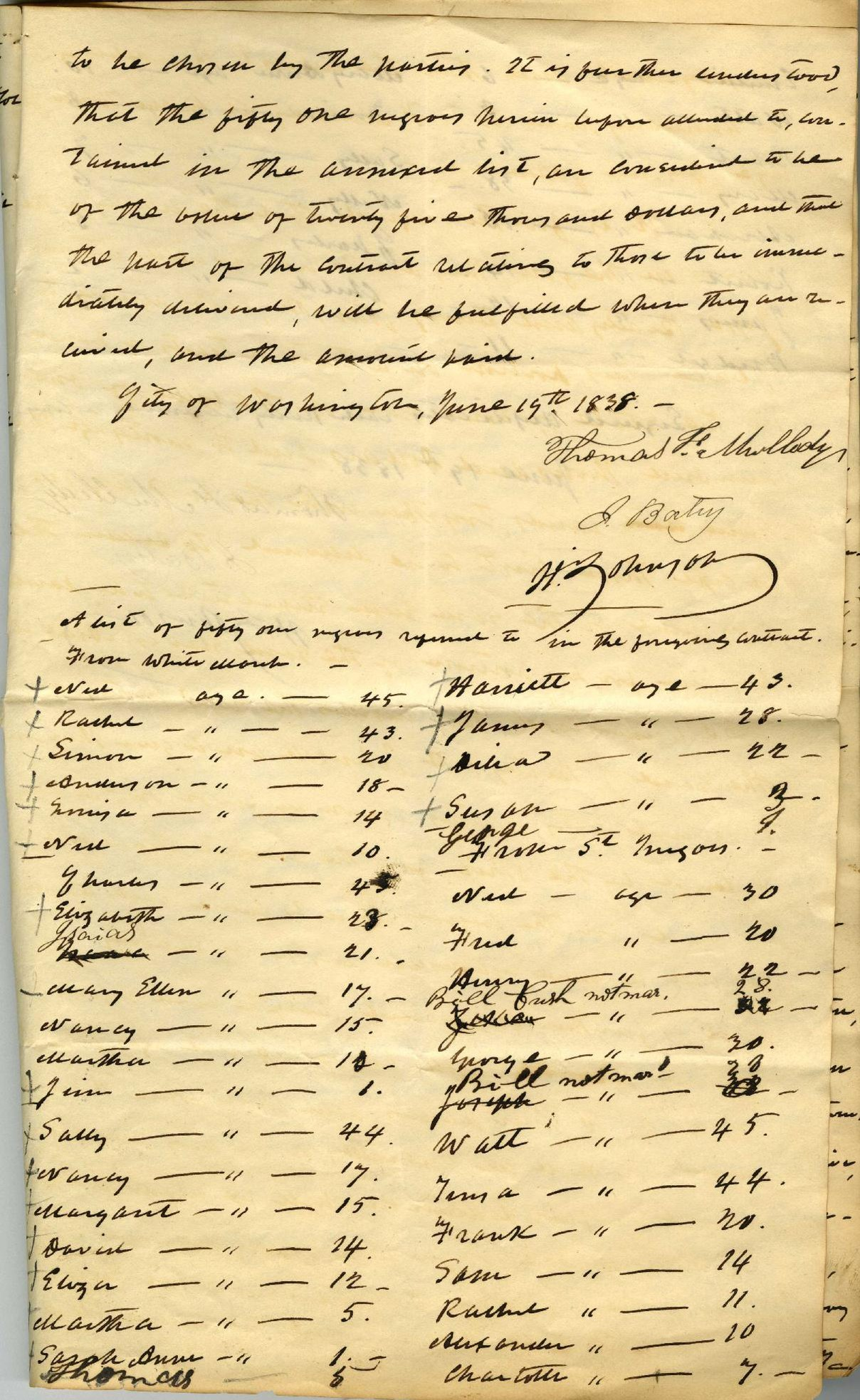 Articles of agreement between Thomas F. Mulledy, of Georgetown, District of Columbia, of one part, and Jesse Beatty and Henry Johnson, of the State of Louisiana, of the other part. 19th June 1838. Page 7.